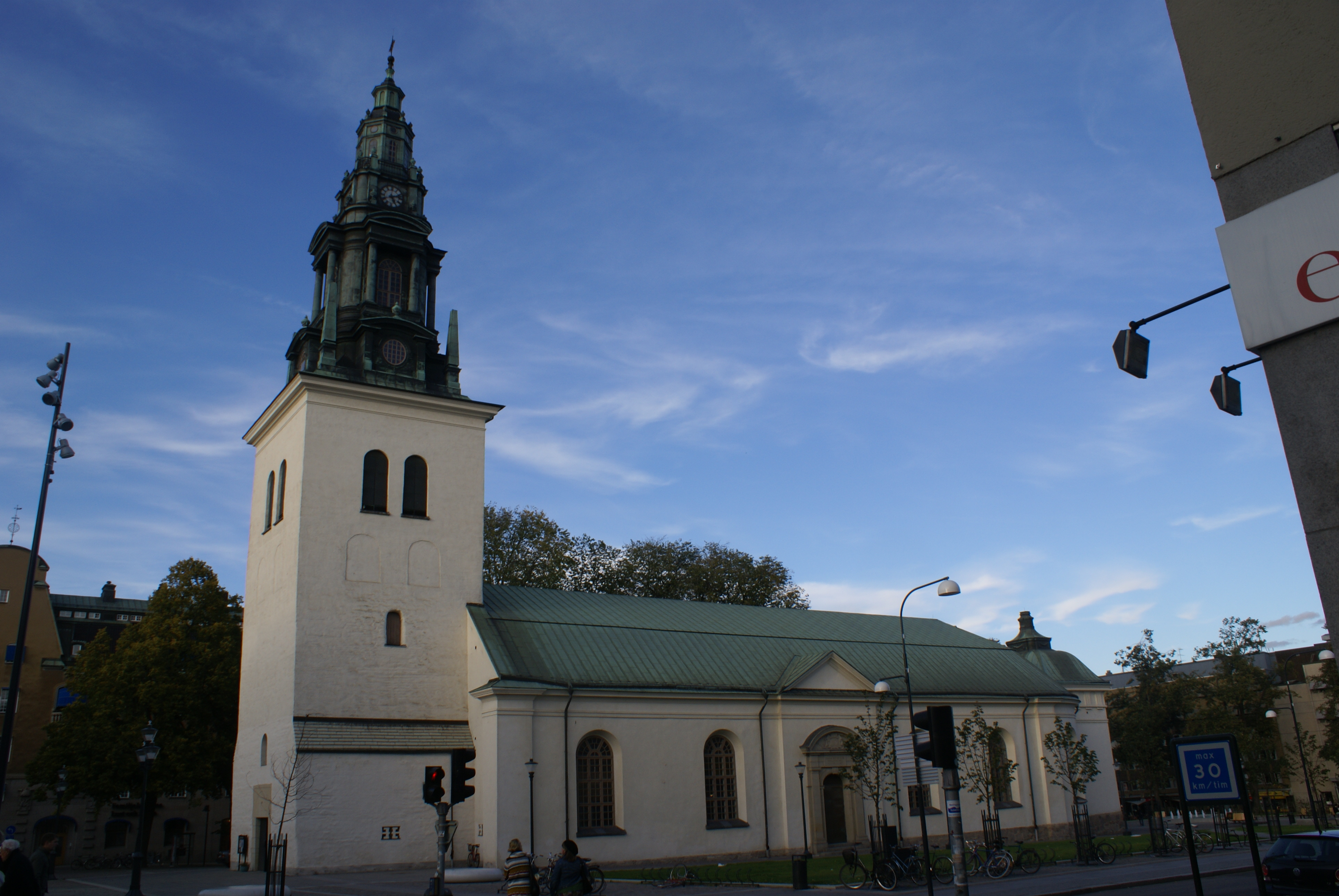 Sankt Lars kyrka, Linköping